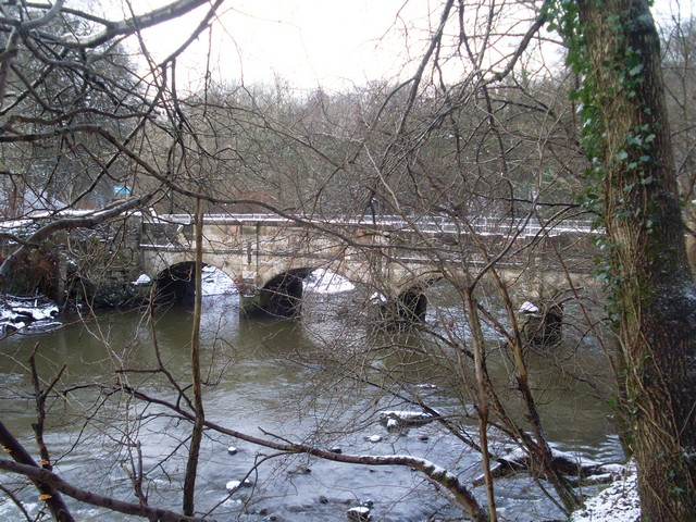 View of the stone bridge over the River Kelvin in Dawsholm Park, Glasgow, Scotland.